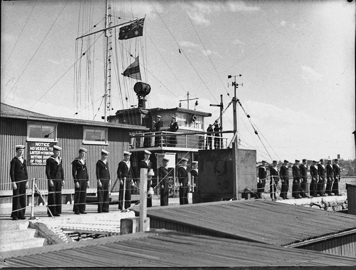 Navy League sea cadets at Schnapper Island (taken for Mr Len Forsythe)